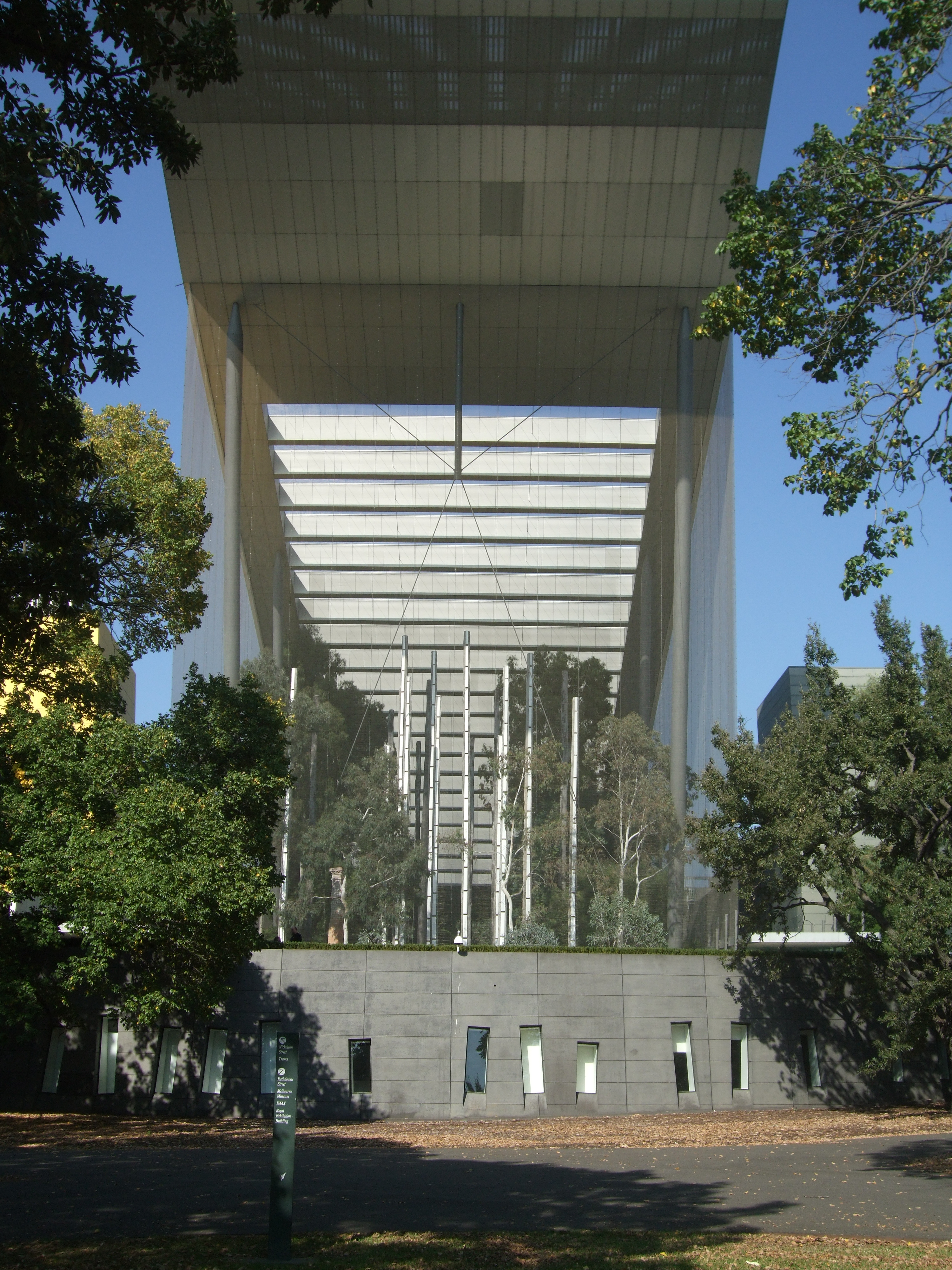 Tree Gallery on the Northern side of Melbourne Museum